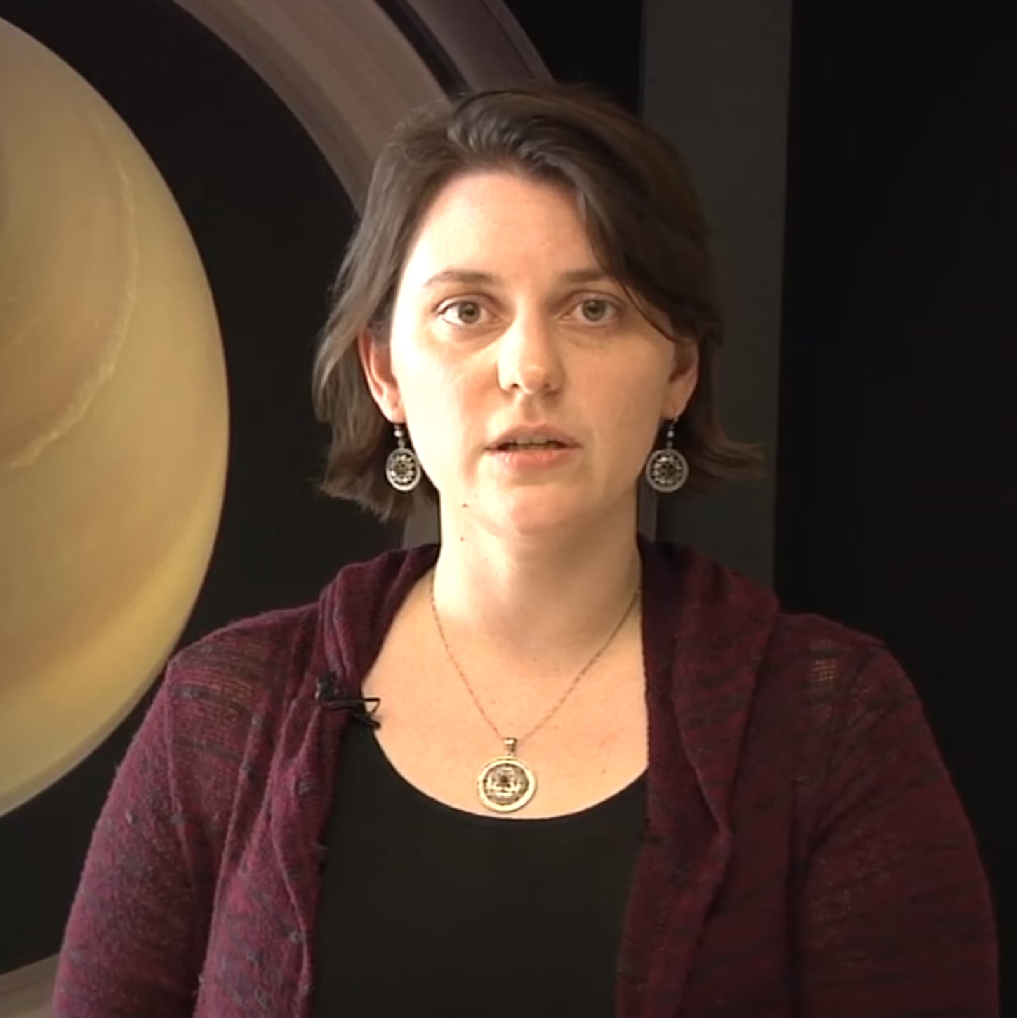 Designing spacecraft involves prioritizing criteria and making trade-offs based on environmental and resource constraints faced by engineers. NASA has been exploring Mars since the early 1960s and developing those missions is easy small task, taking many years and thousands of people working together to complete. Dr. Sarah Milkovich, a science system engineer, says, “One important aspect of system engineering is to think about what do you really need your system do to before you figure out how it’s going to do that.”